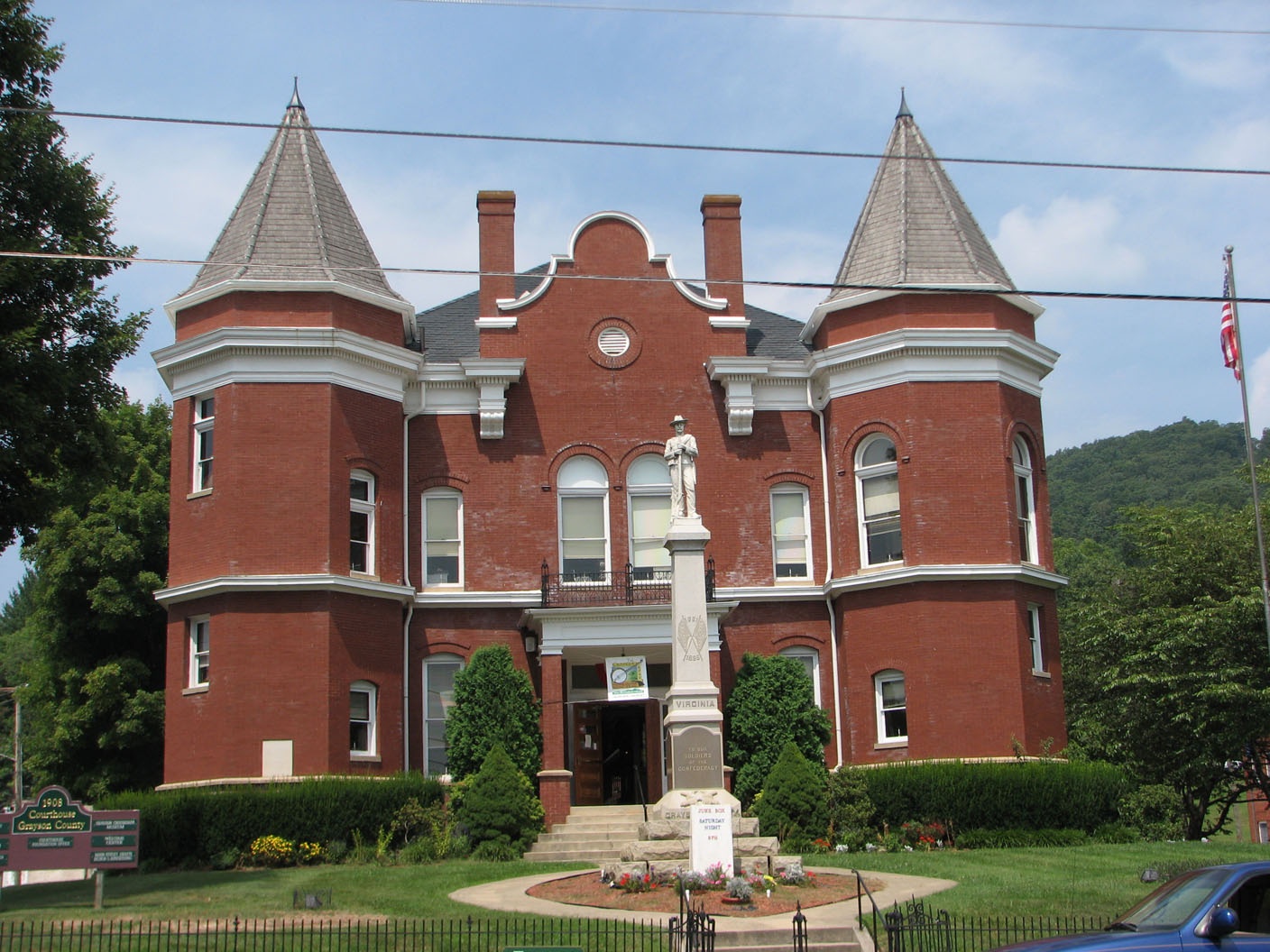 Photograph of the Old Grayson County Courthouse, taken by RebelAt in August, 2006.